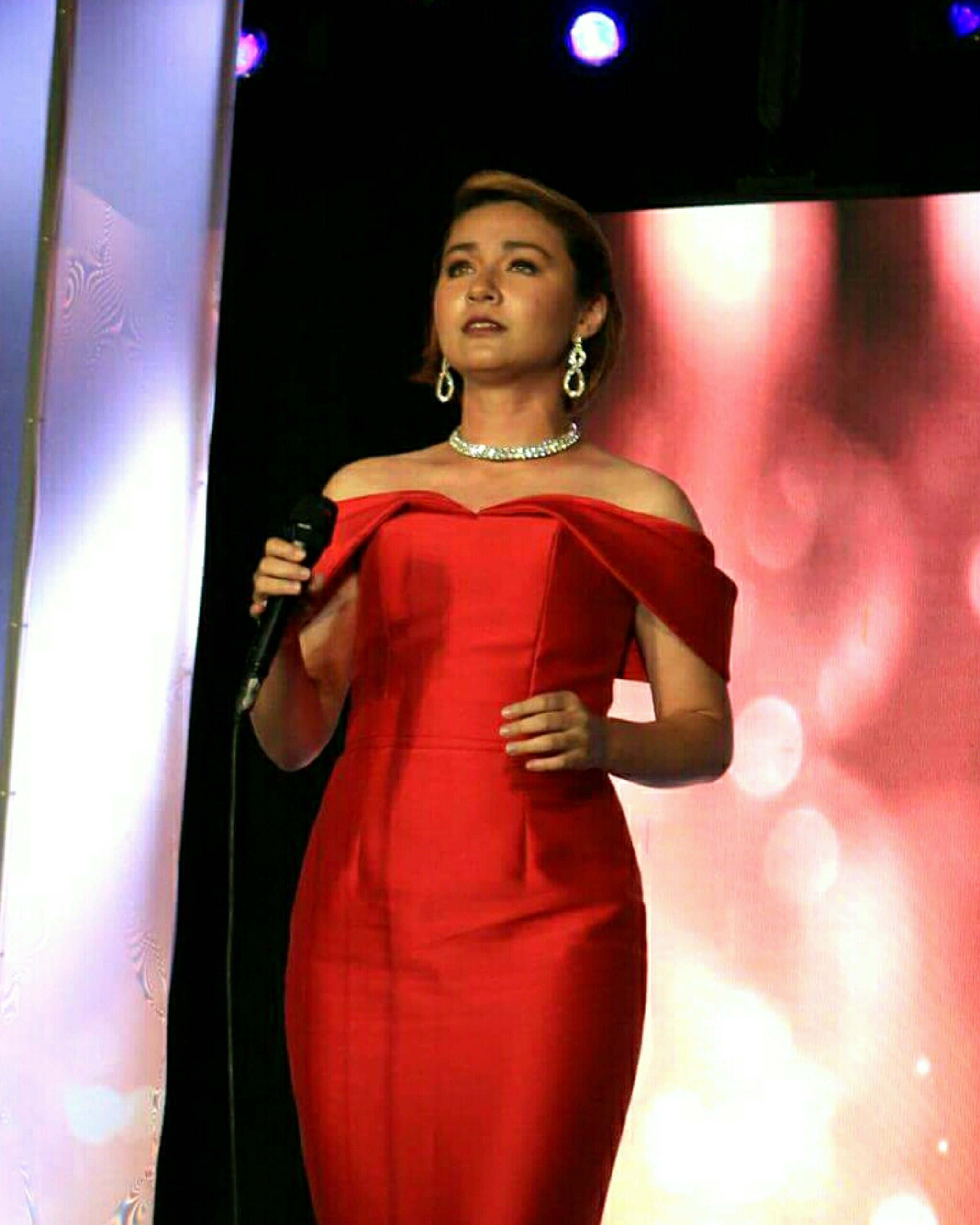 Gerphil Flores, 2017. Makati City